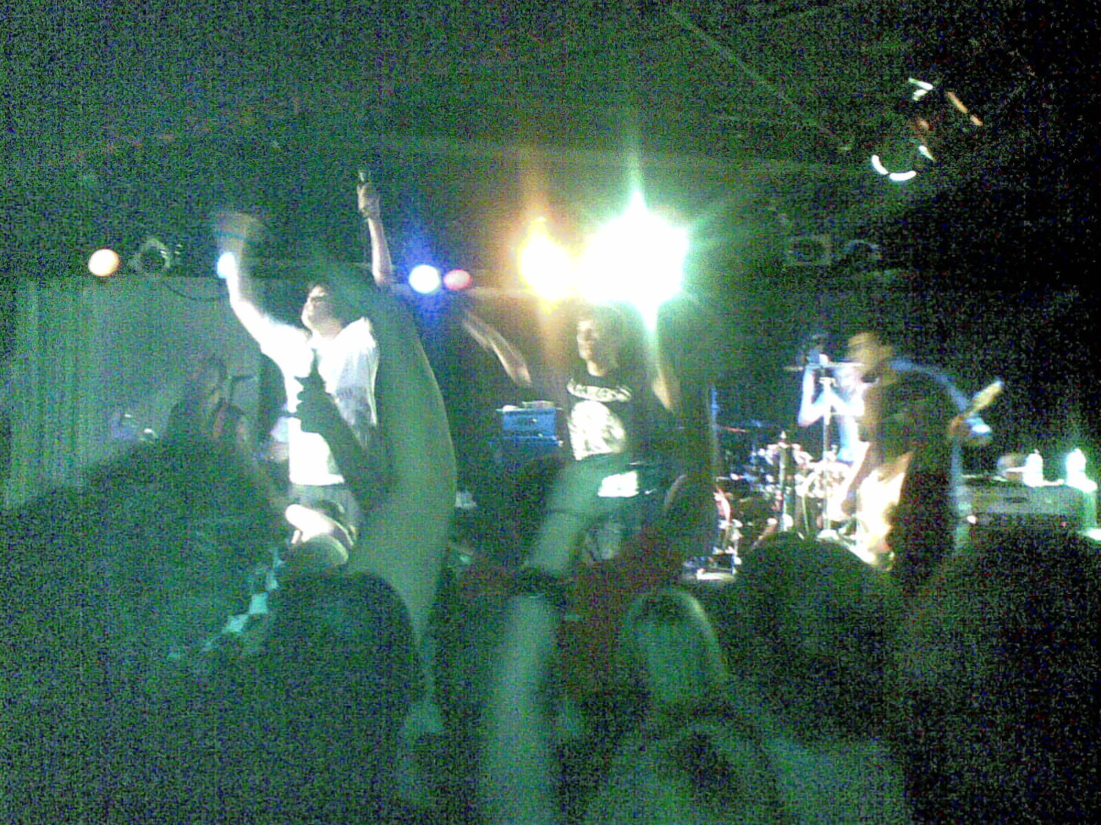 Set Your Goals supporting All Time Low at the Corner Hotel in Melbourne, June 2009.